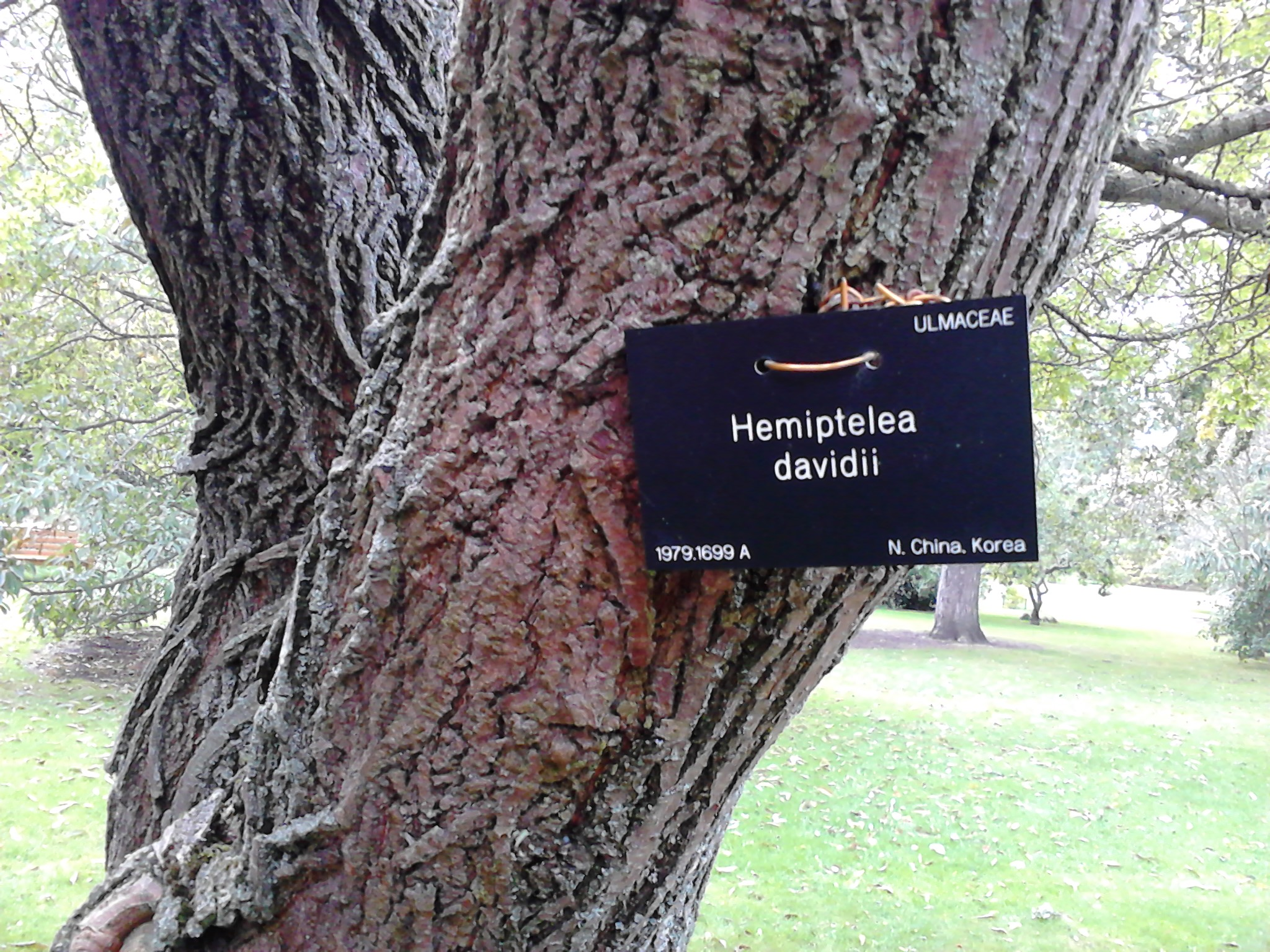 Hemiptelea davidii. Royal Botanic Gardens, Edinburgh